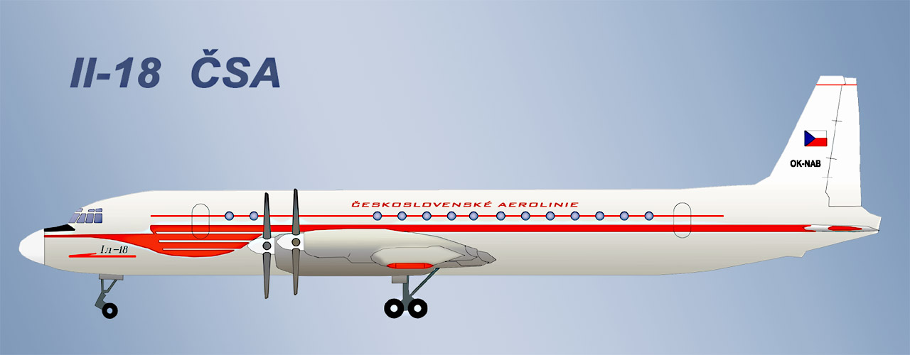 Ilyushin Il-18 in ČSA livery